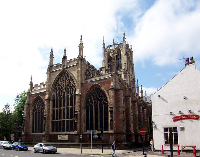 Holy Trinity Church, Kingston upon Hull, East Riding of Yorkshire, England. Holy Trinity is said to be the largest by area of all English Parish Churches. The present building is the third Church on the site. Founded in 1285, the oldest parts date back to c1300. The 150 ft high tower (which contains four clock faces), has a ring of 15 bells.